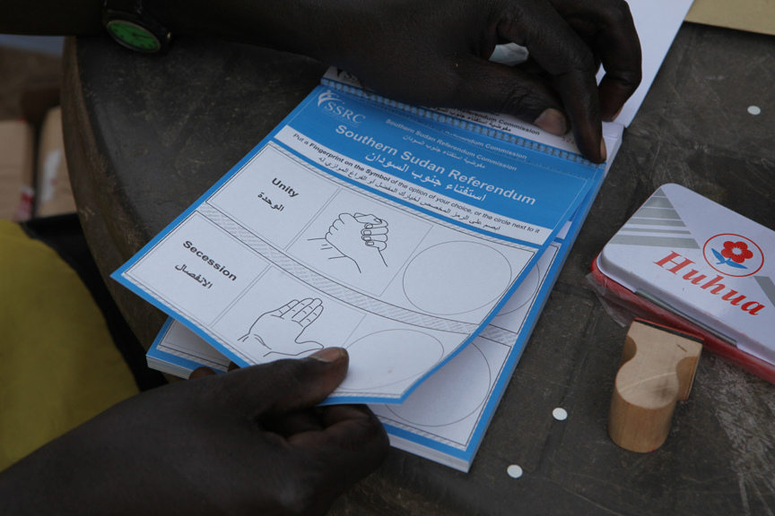 A Southern Sudanese independence referendum ballot